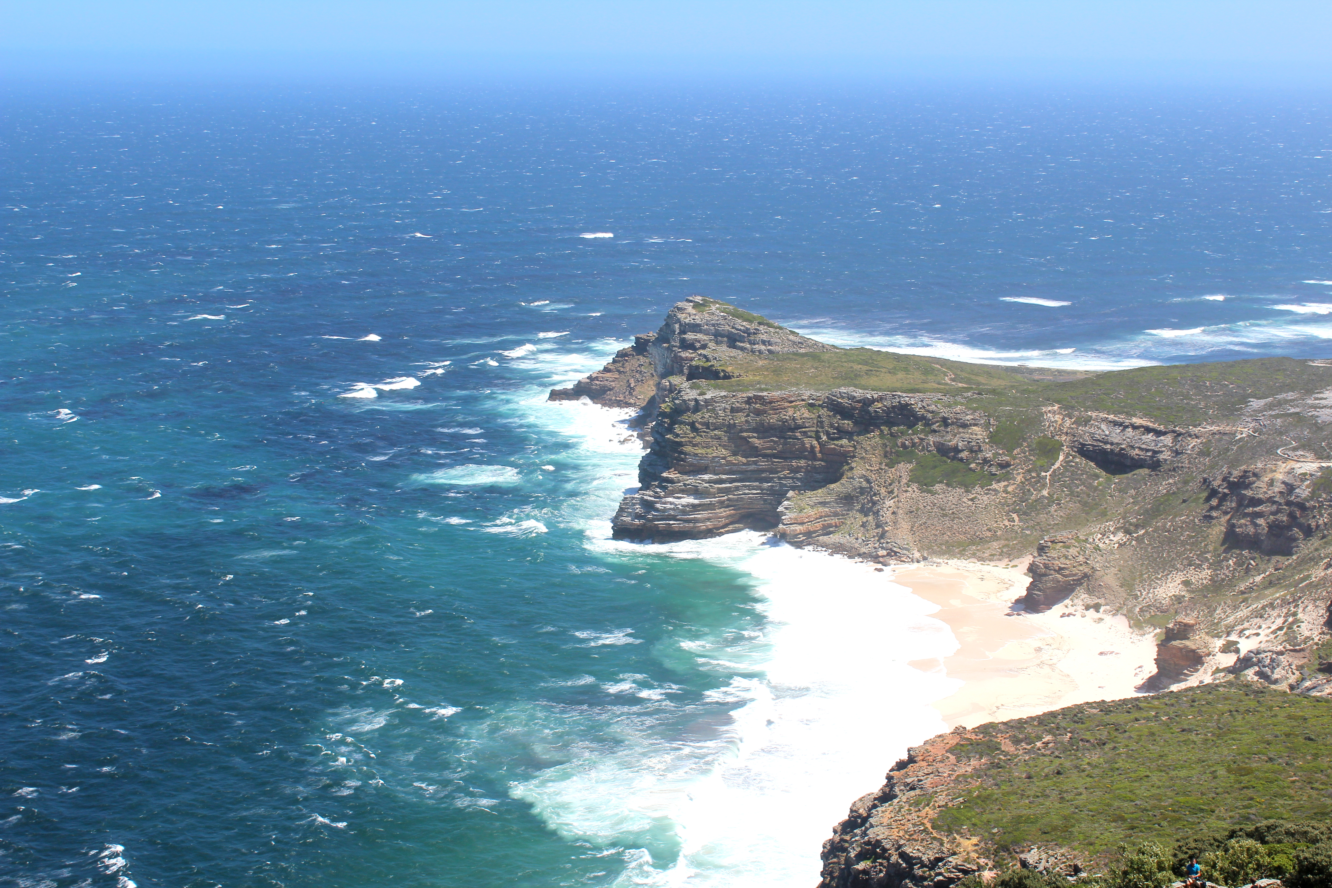 Cape of Good Hope and Dias Beach on the south-westerly tip of Africa some 50 km south of Cape Town which was originally named the "Cape of Storms" by the Portuguese explorer Bartolomeu Dias. Nominally it extends into the Atlantic Ocean which carries the cold Benguela Current, but at times the turning point of the warmer Agulhas Current shifts several hundred kilometres westwards and it flows past the headland.